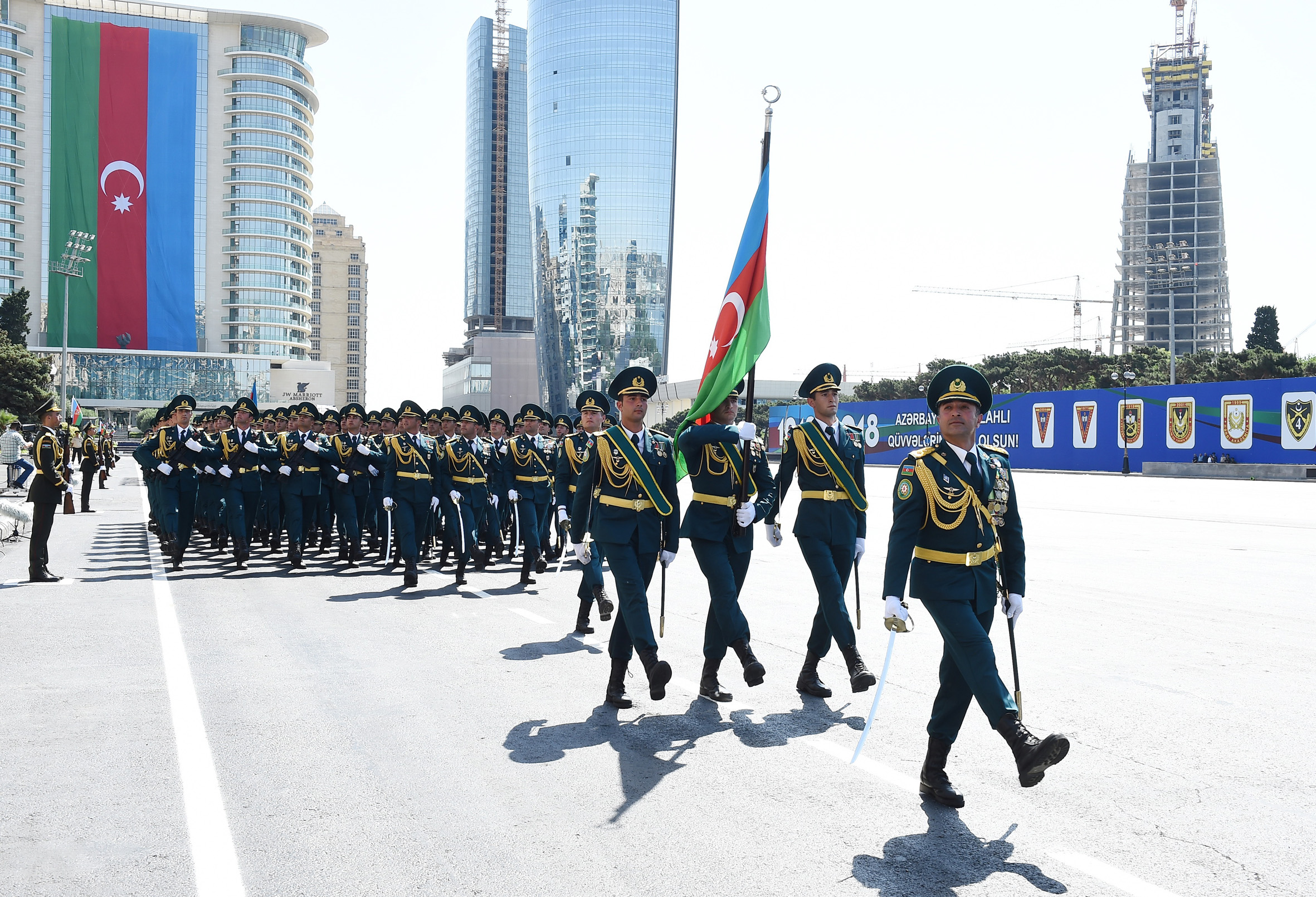 A solemn military parade has been held in Baku to mark the centenary of the establishment of the Armed Forces of the Republic of Azerbaijan.